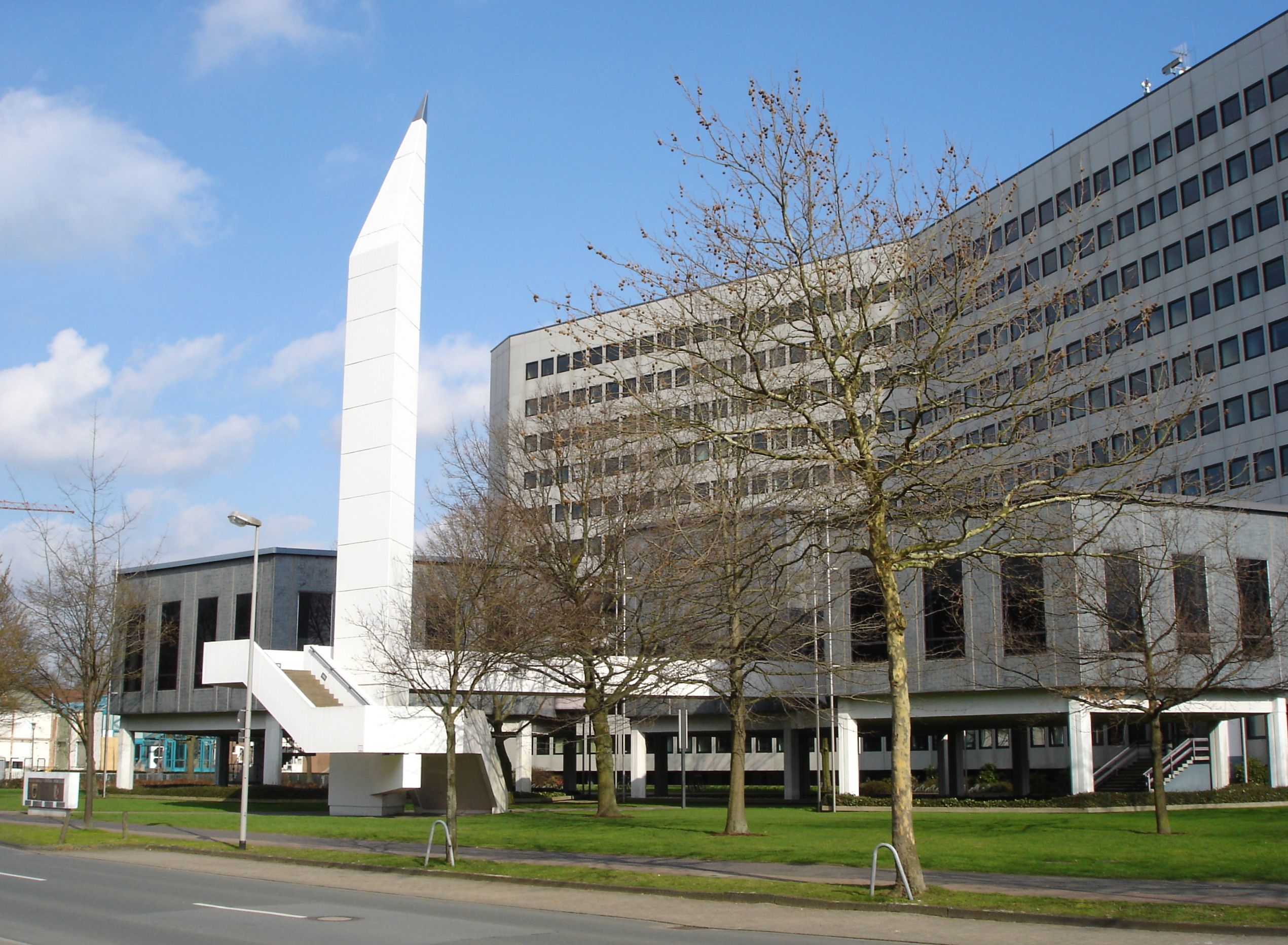 building of the Oberfinanzdirektion Münster in Münster, Westfalia, Germany; built 1966, demolished 2016/2017